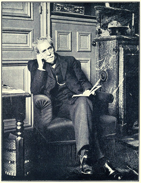 Picture from a book in the public domain.